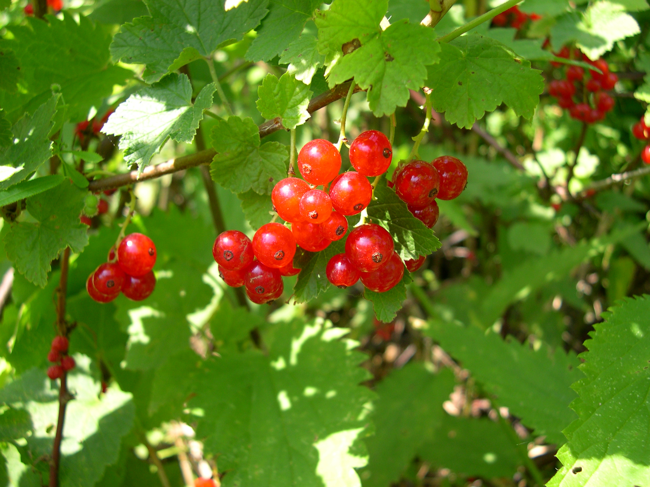 Redcurrant (Ribes rubrum) in Belgium (Hamois).